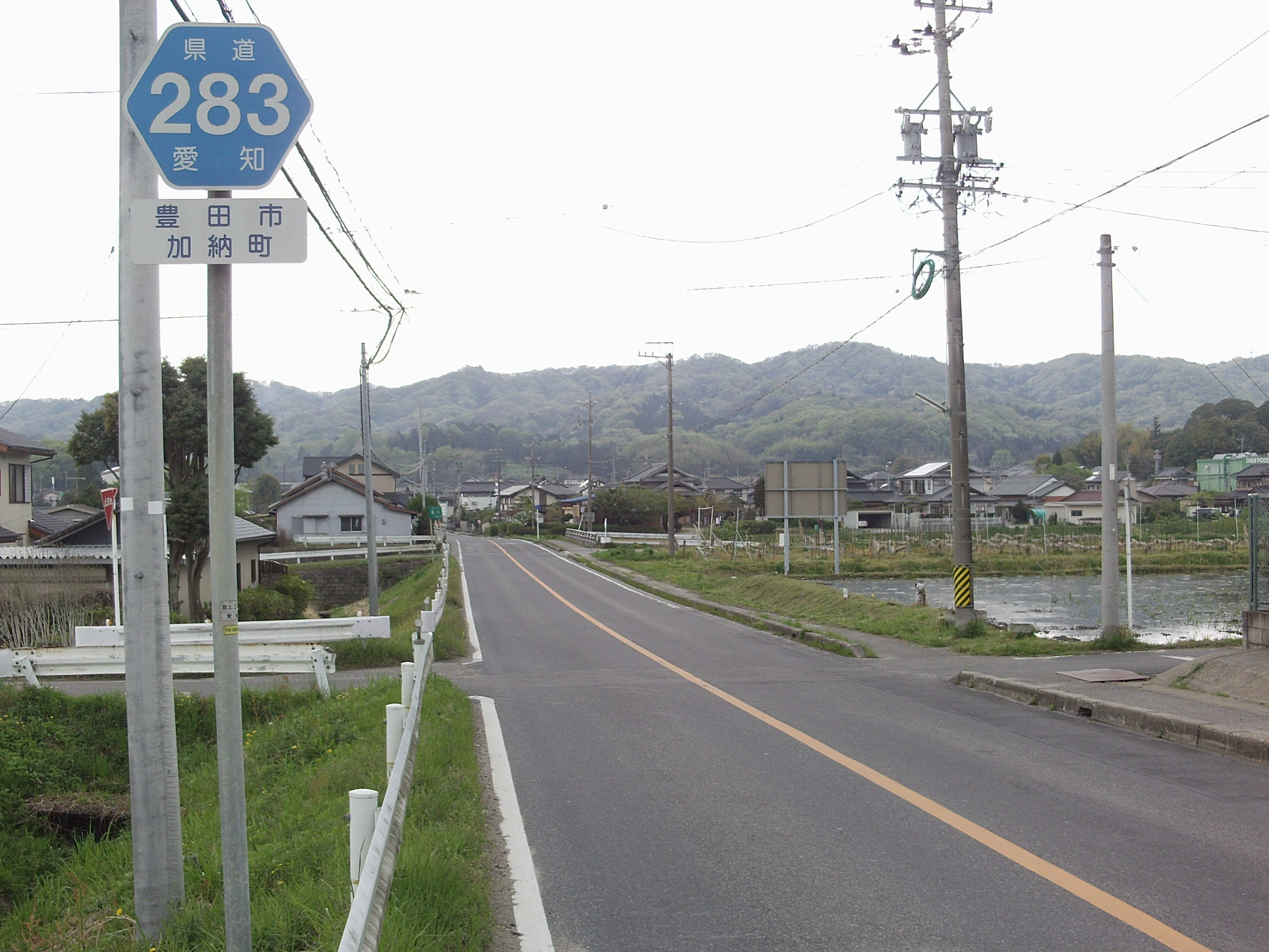 Aichi prefectural road No.283 in Kanocho, Toyota, Aichi.